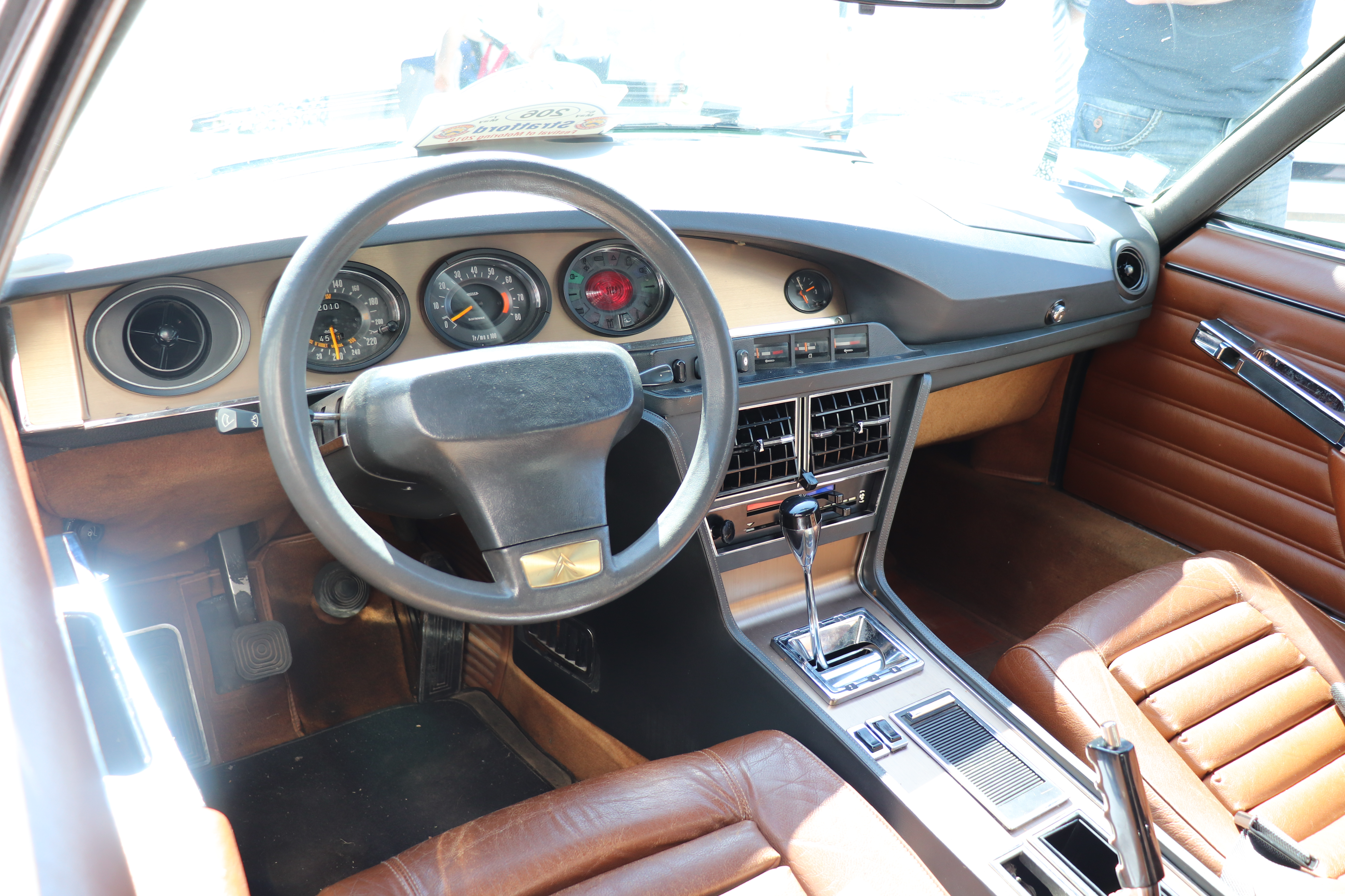 1972 Citroen SM 2.5 Interior Taken at the Stratford Festival of Motoring 2018